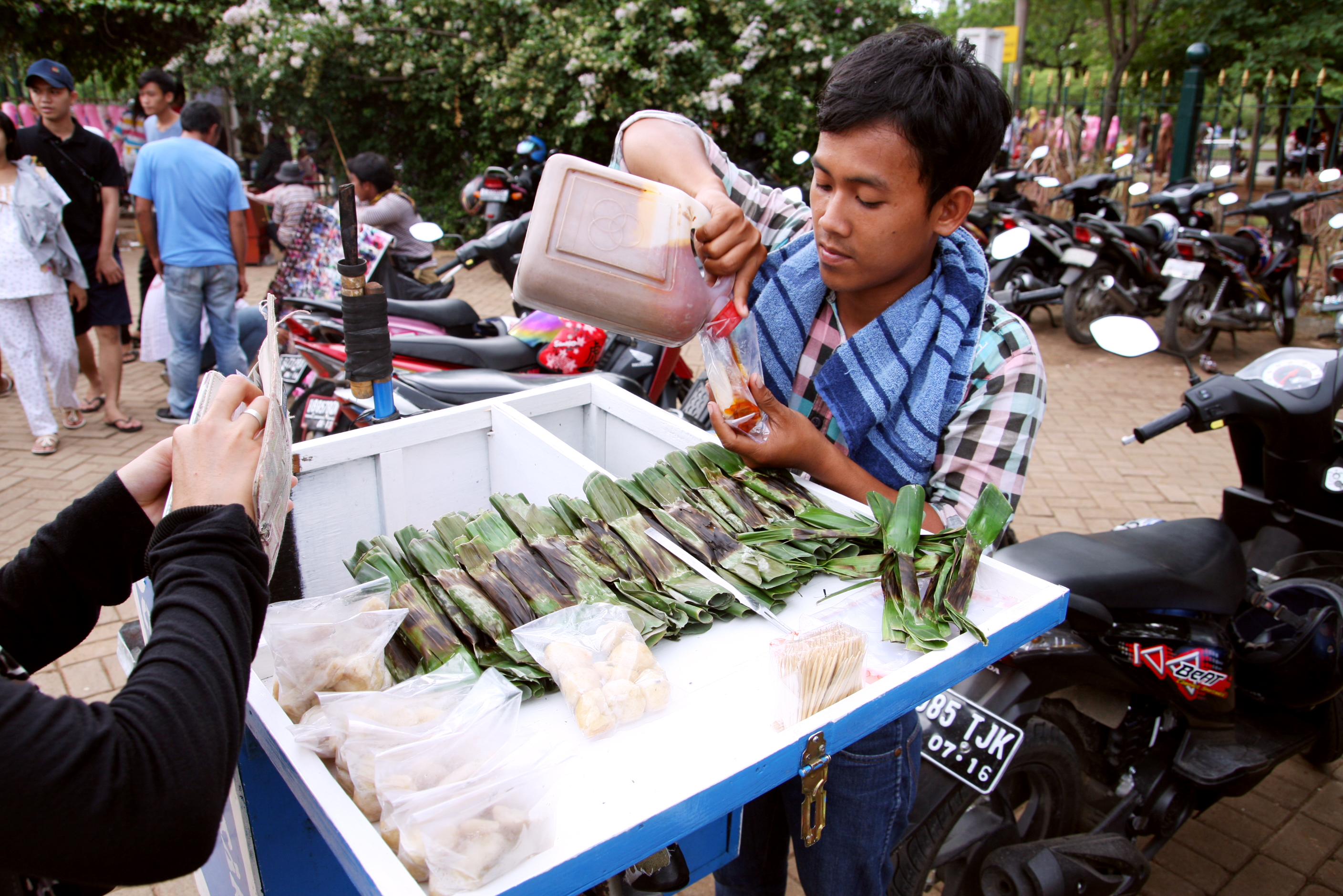 Selling Otak-otak